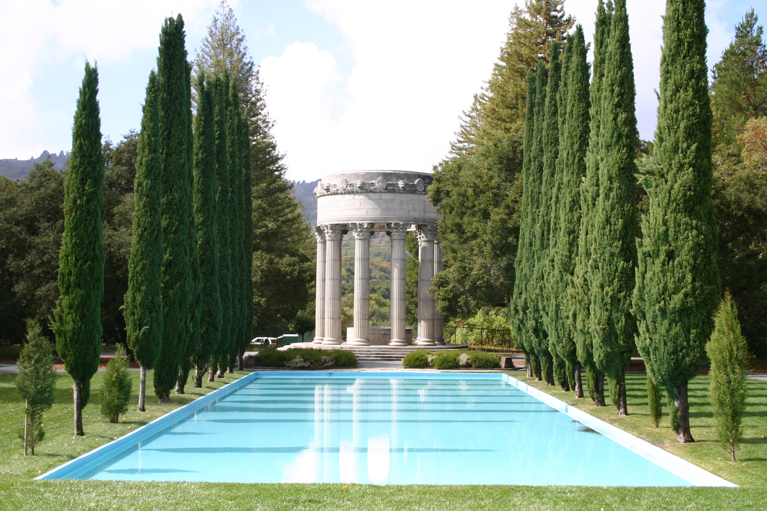 Pulgas Water Temple (built 1938) in Woodside, California Located at the terminus of the Hetch Hetchy aqueduct.